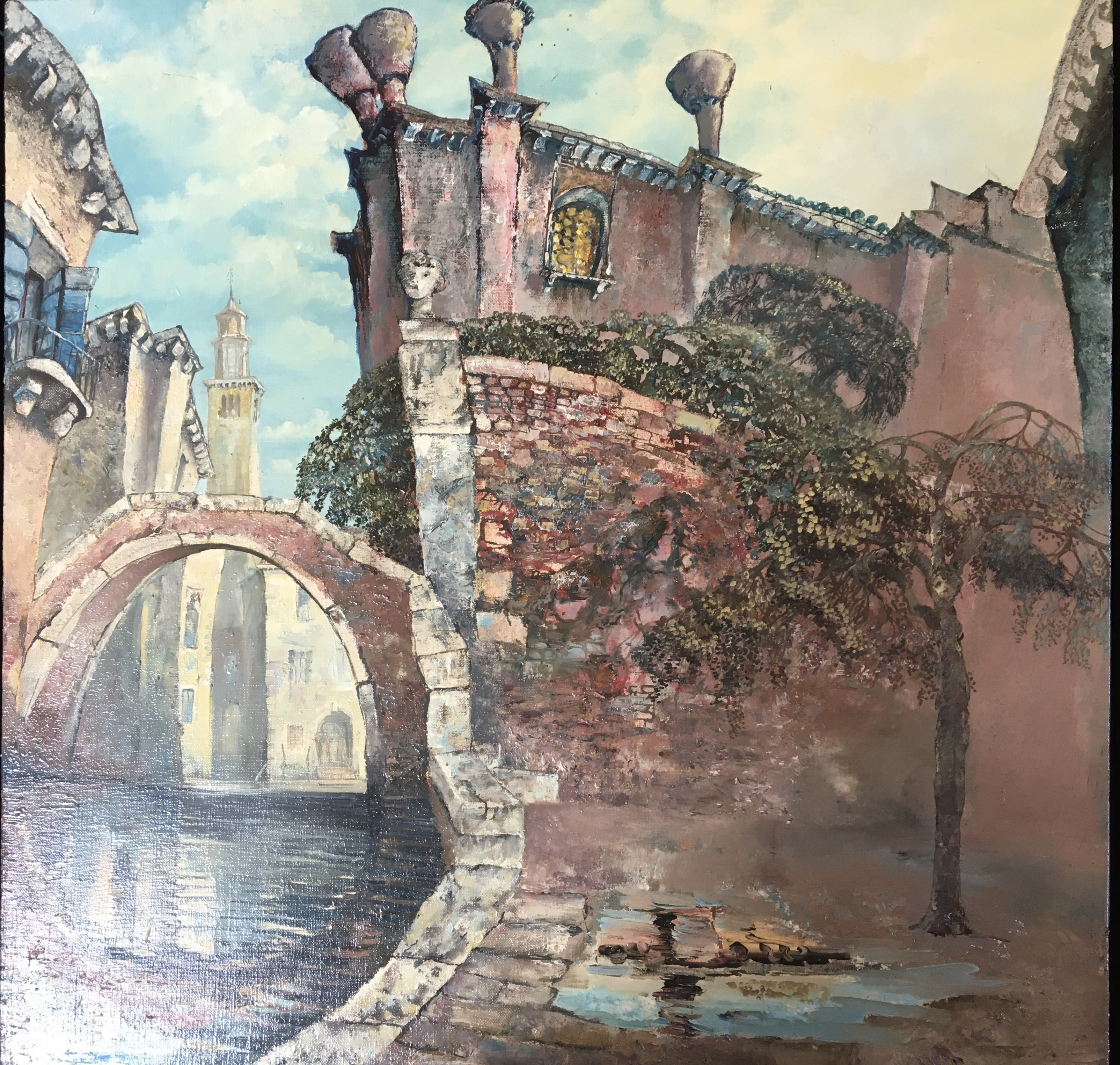 Campiello Barbaro, Venise